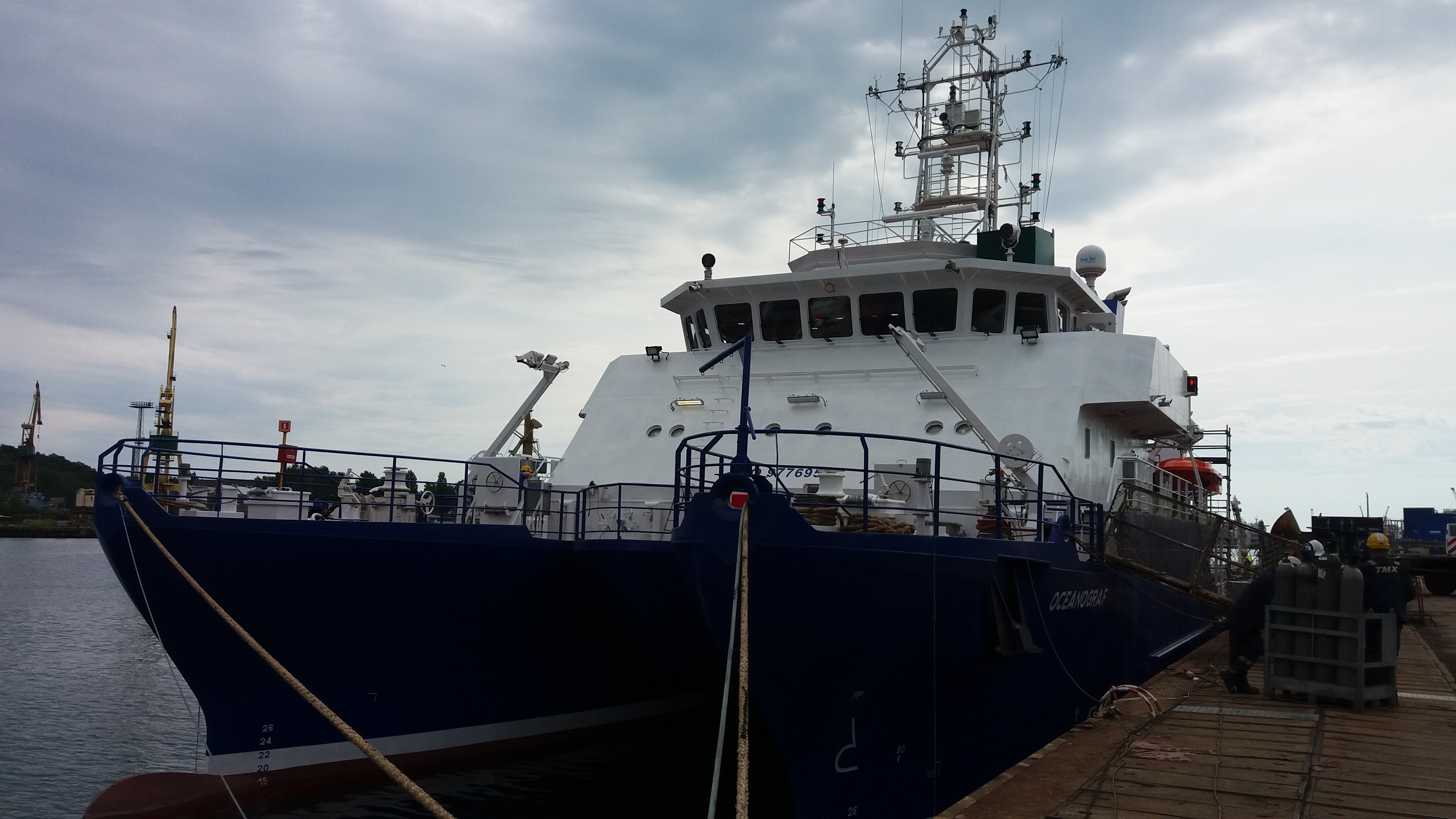 RV Oceanograf, Gdynia, Poland. Owner: University of Gdansk